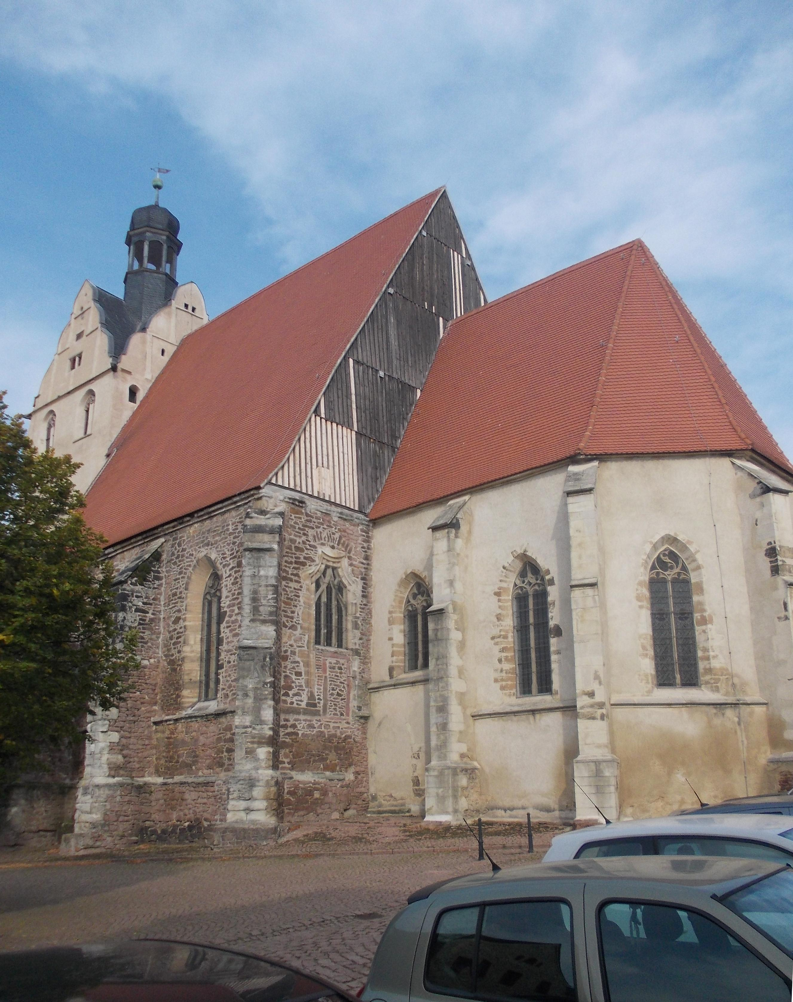 St. Peter's Church in Löbejün (Wettin-Löbejün, district: Saalekreis, Saxony-Anhalt)